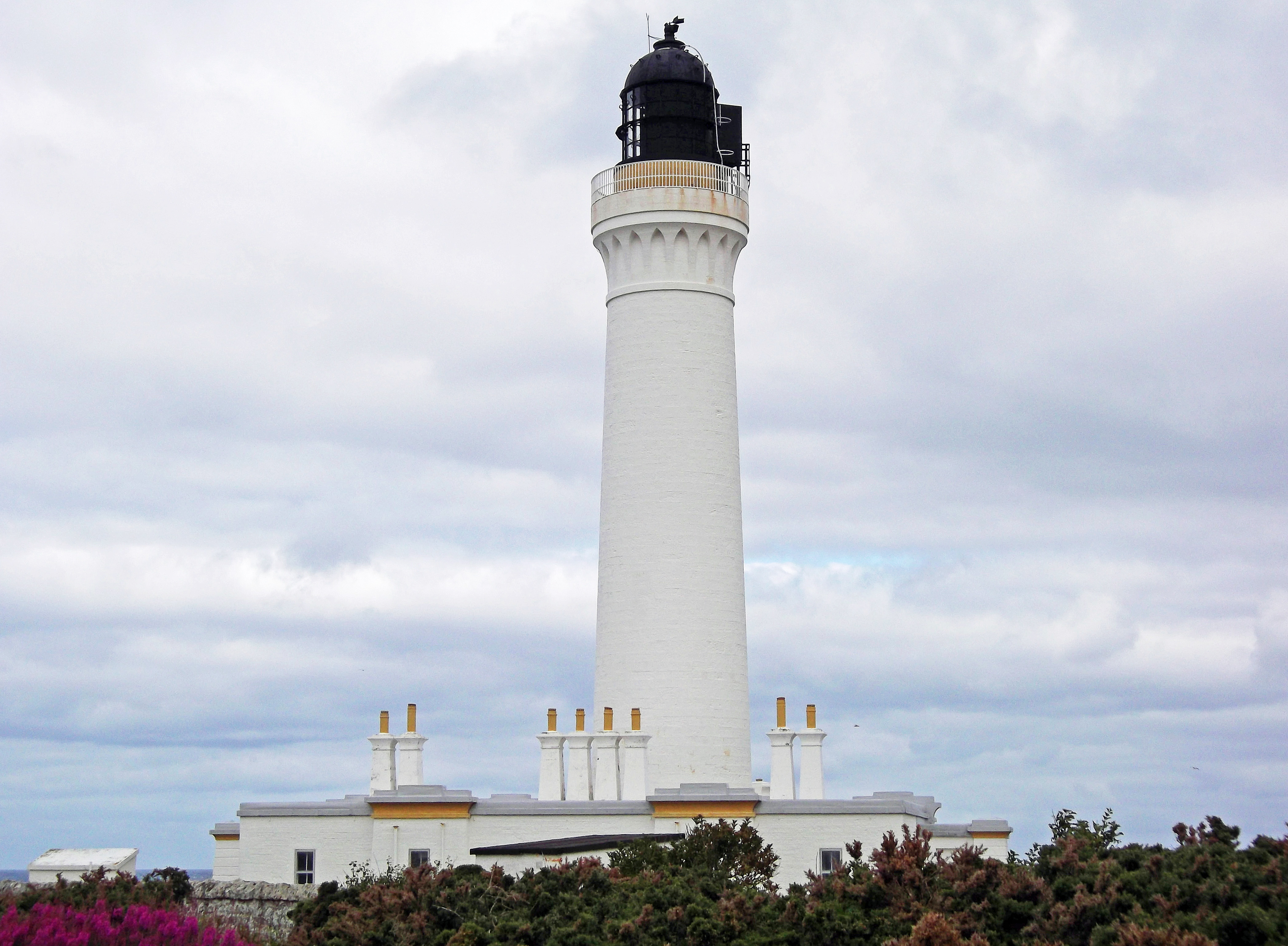 Photograph of the lighthouse, which I took myself.